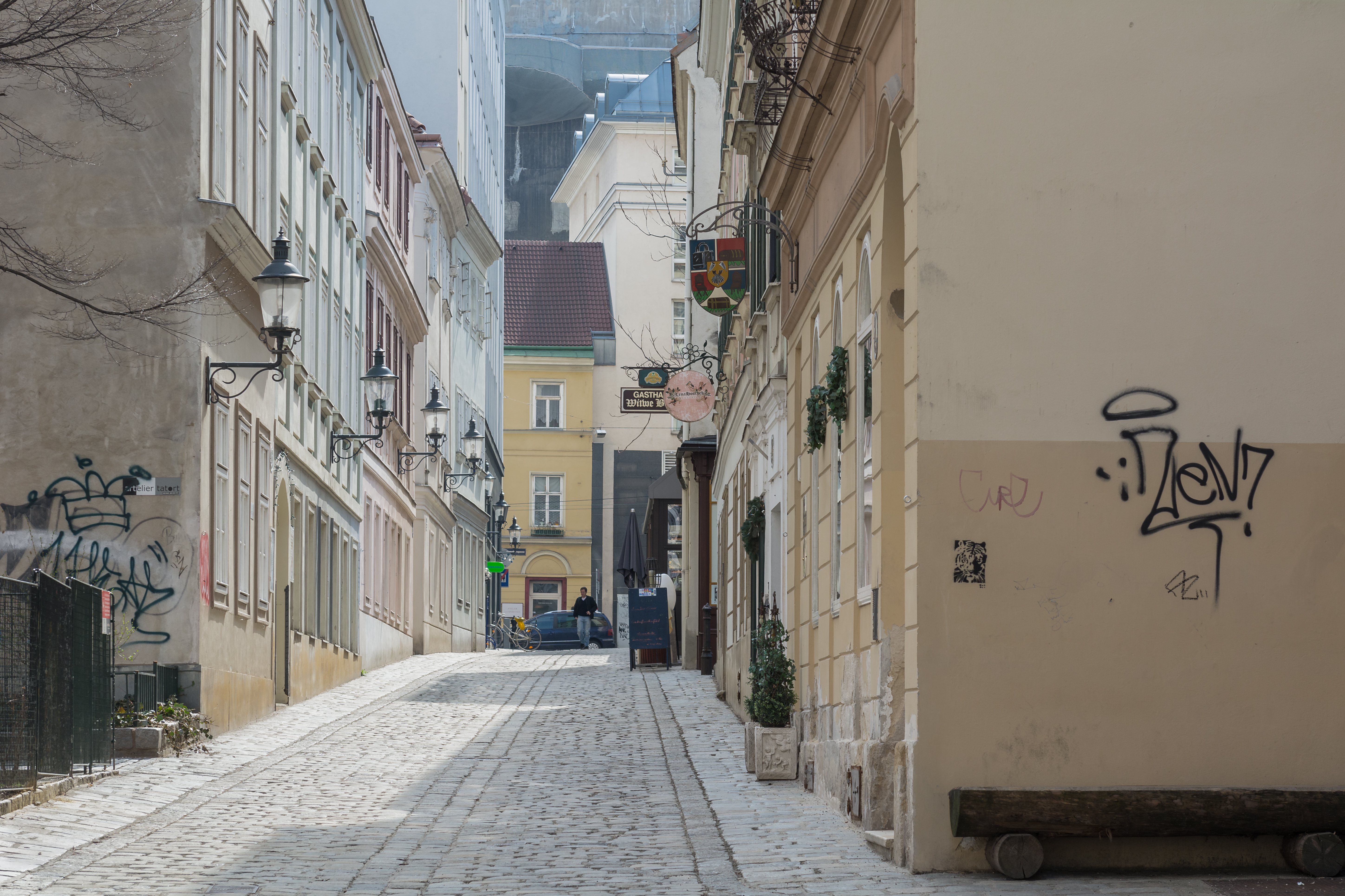 Uphill view through Gutenberggasse at Spittelberg in Vienna.